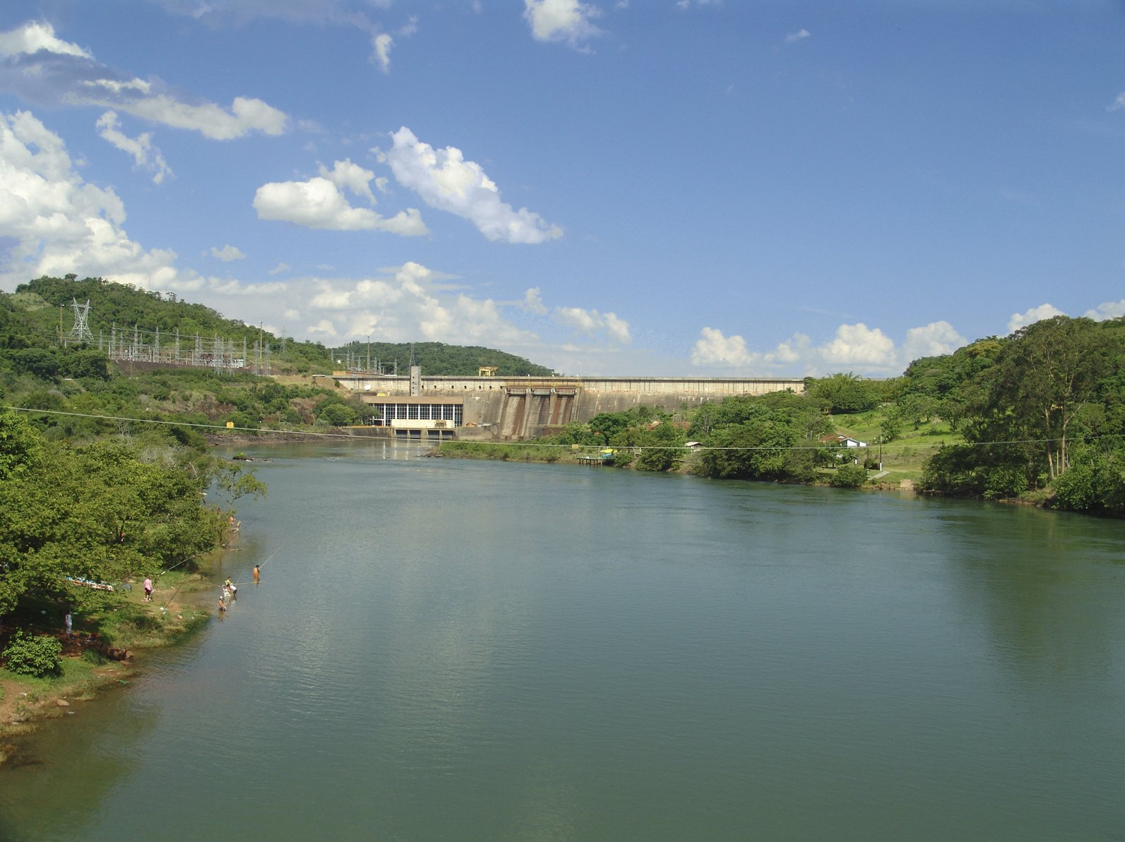 Jurumirim dam on the Paranapanema river.